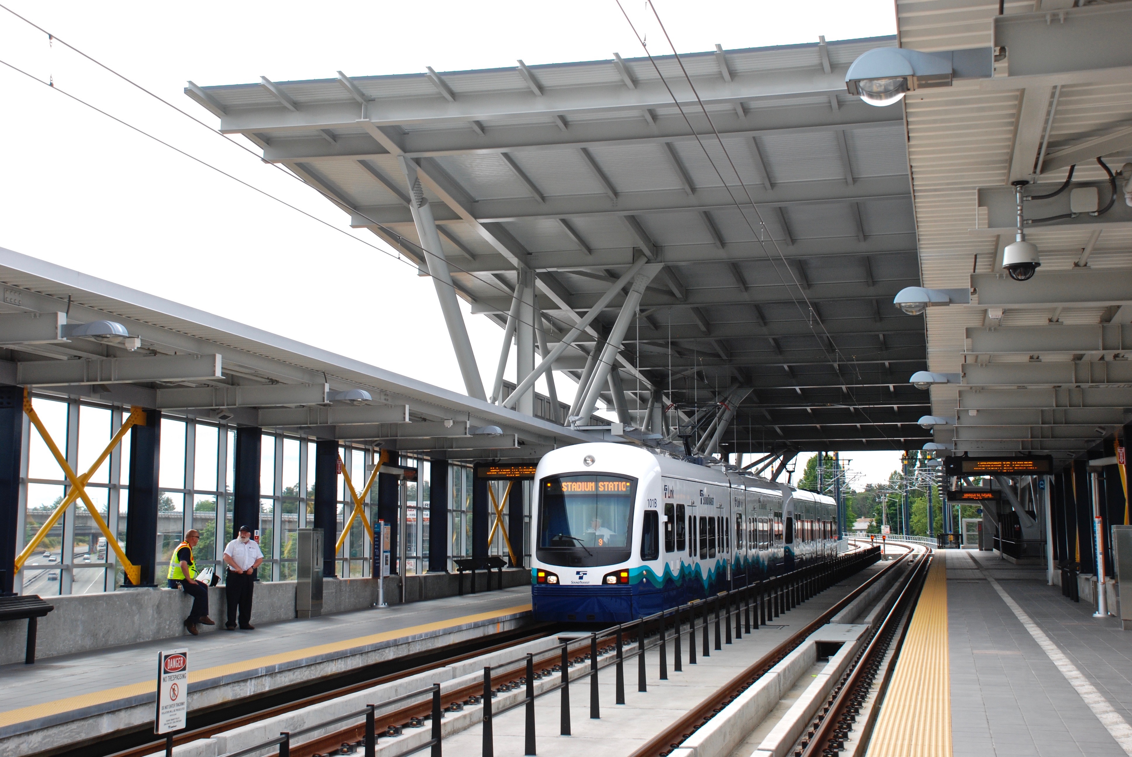 Tukwila International Boulevard station of the Link light rail system in Seattle, with a northbound train about to depart. The photo was taken on July 23, 2009, during the first week of service on the Link system, and this station was the line's southern terminus at that time.